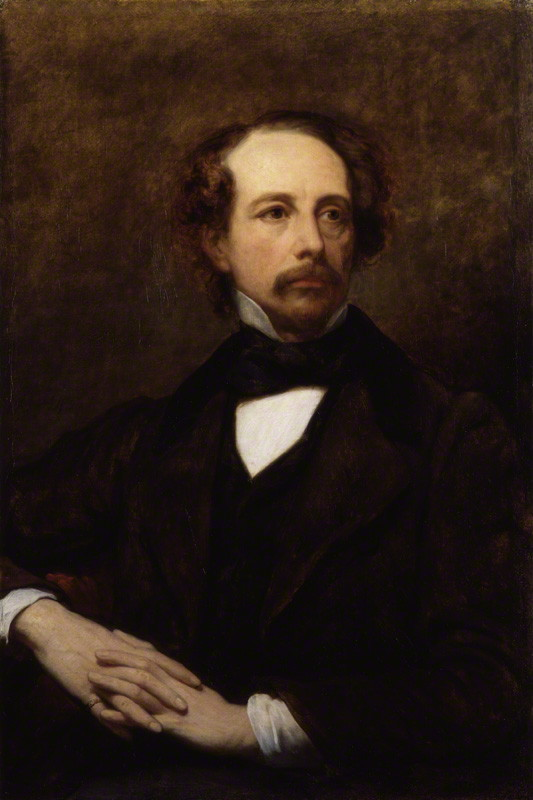 "Charles Dickens," oil on canvas, by the French artist Ary Scheffer. 37 1/8 in. x 24 3/4 in. Courtesy of the National Portrait Gallery, London.